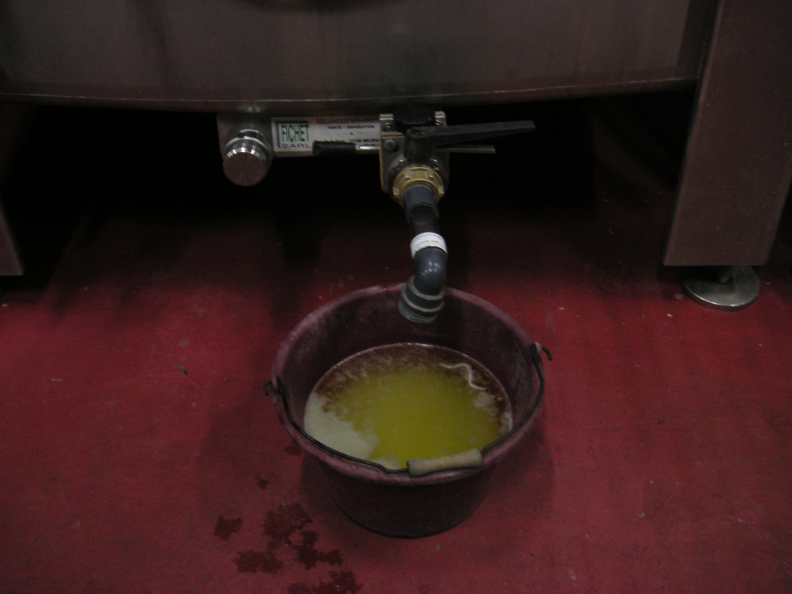 Liquid waste from wine production